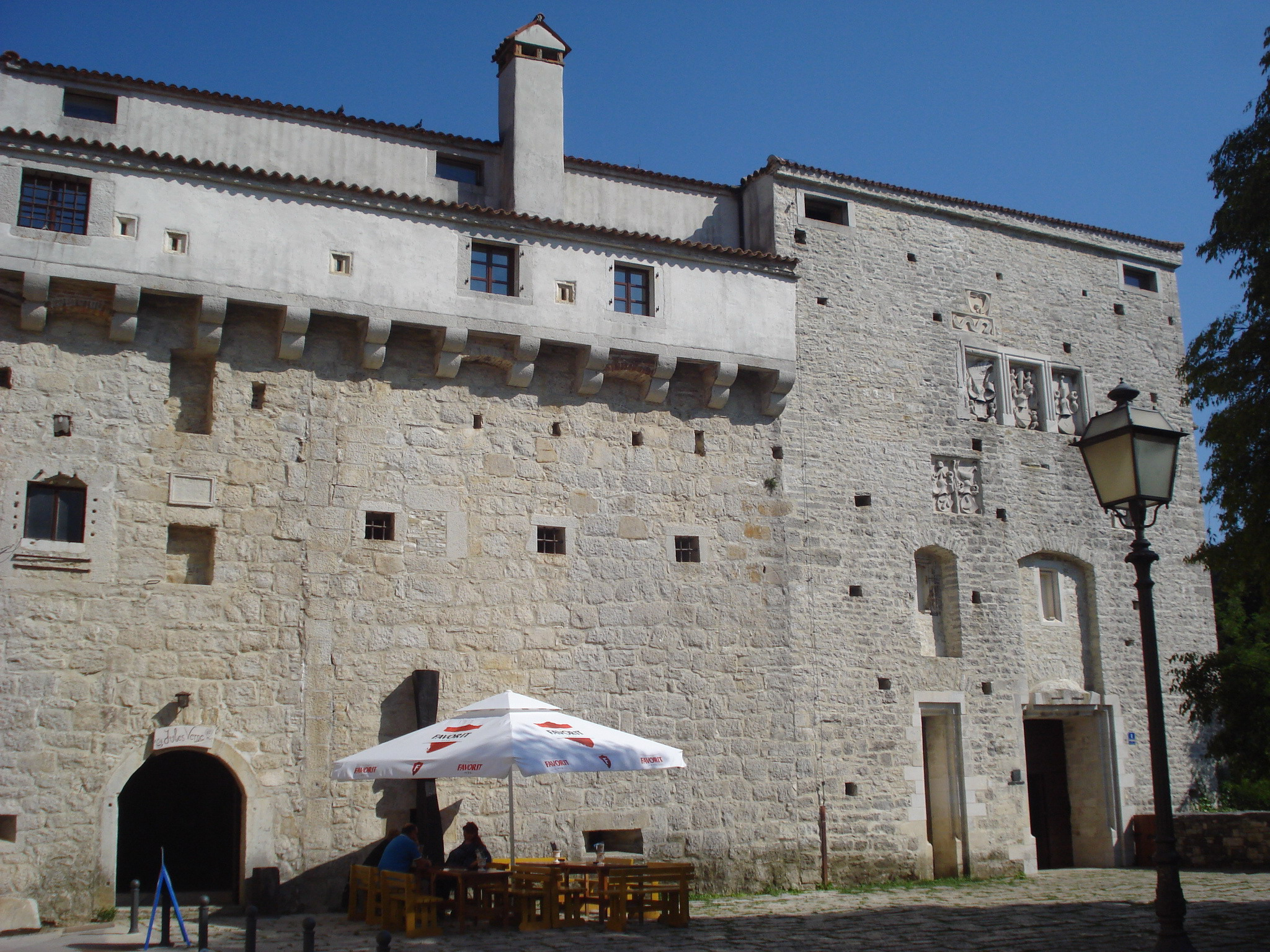 Pazin Castle, Istria County, western Croatia - western walls